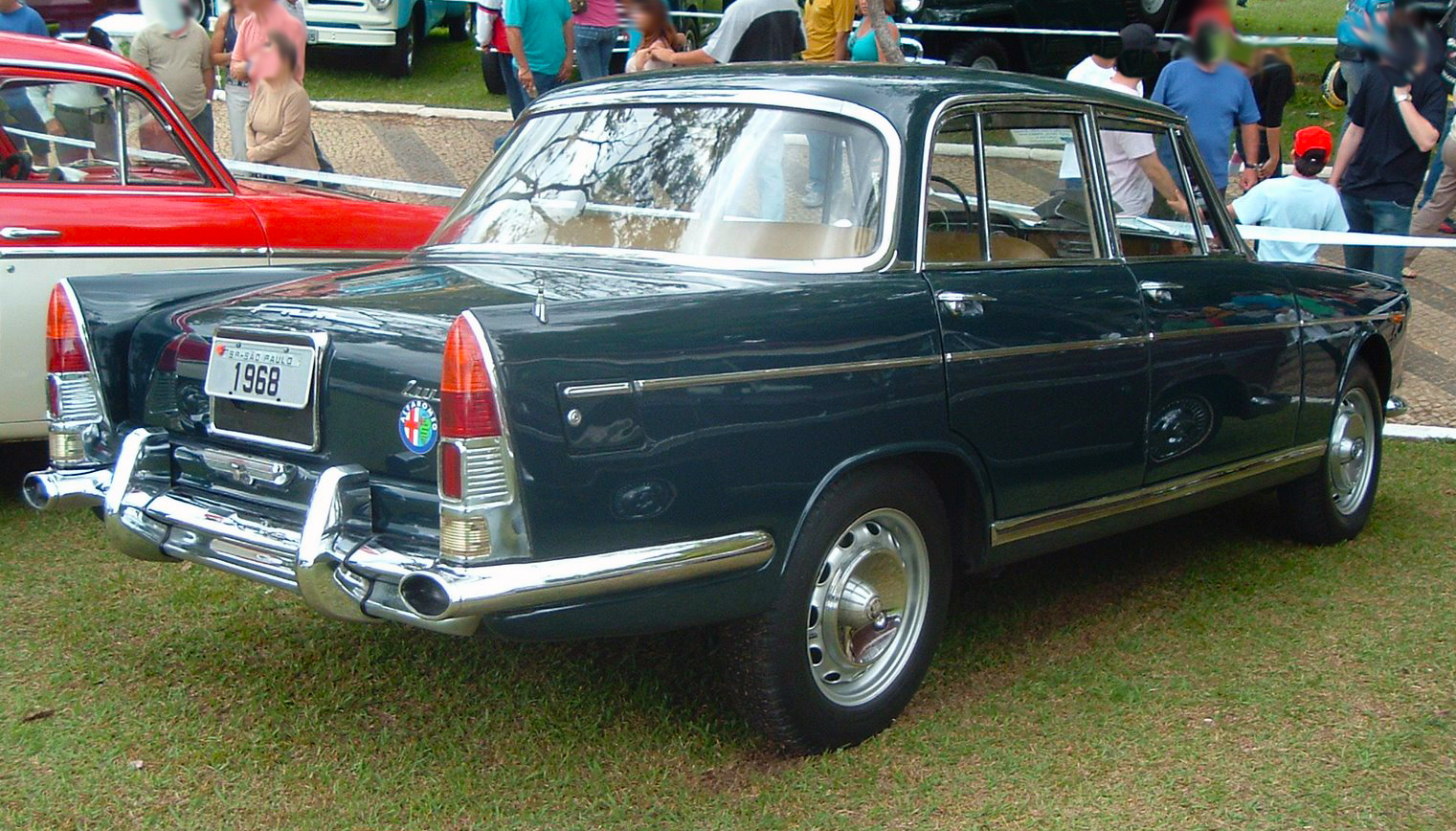 Alfa Romeo JK 2000 - 1968. This was named in honour of Brazilian President Juscelino Kubitschek, who helped bring the production line of the Alfa Romeo 2000 to Brazil.